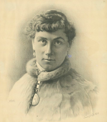 Portrait of the Australian trapeze artist and actress Kate Rickards (1862– 1922). She was the second wife of Harry Rickards